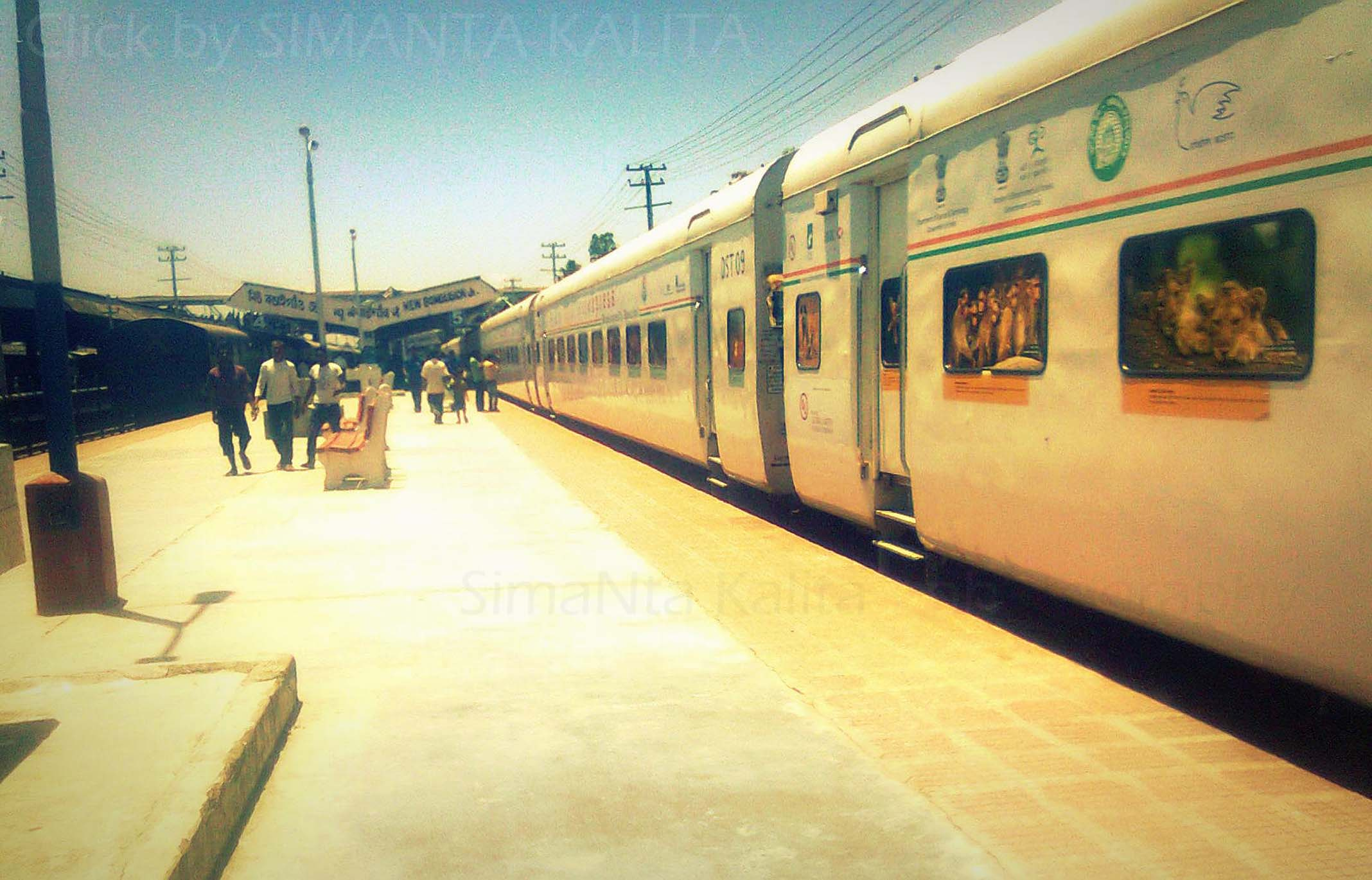 a special train